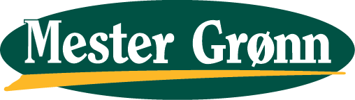 Logo for Mester Grønn AS.